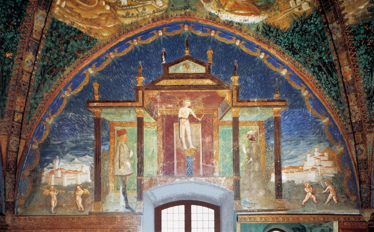 Pier Maria and Bianca Struck by the Arrows of Amor